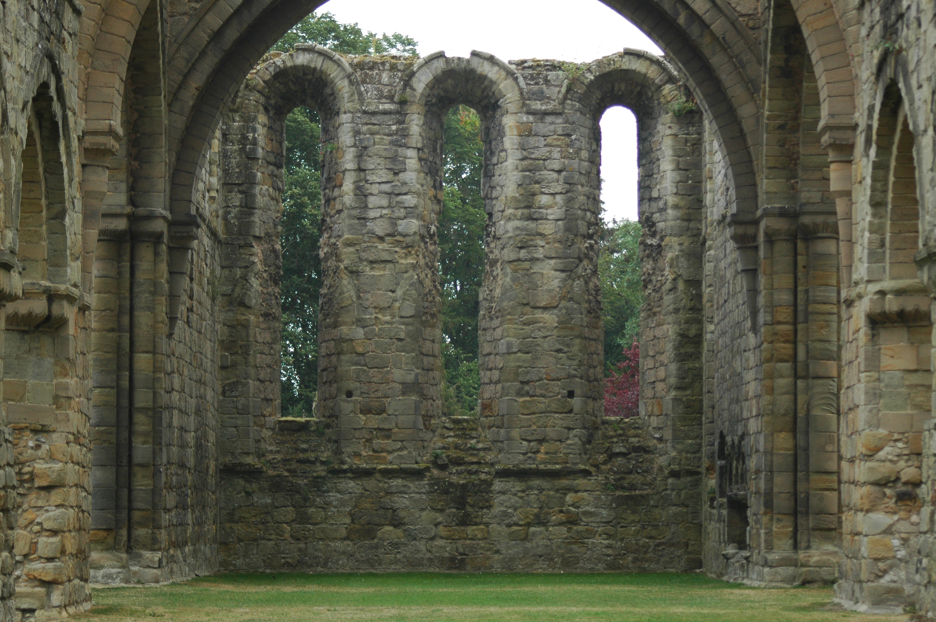 The Cistercensian Abbey of Buildwas by the River Severn